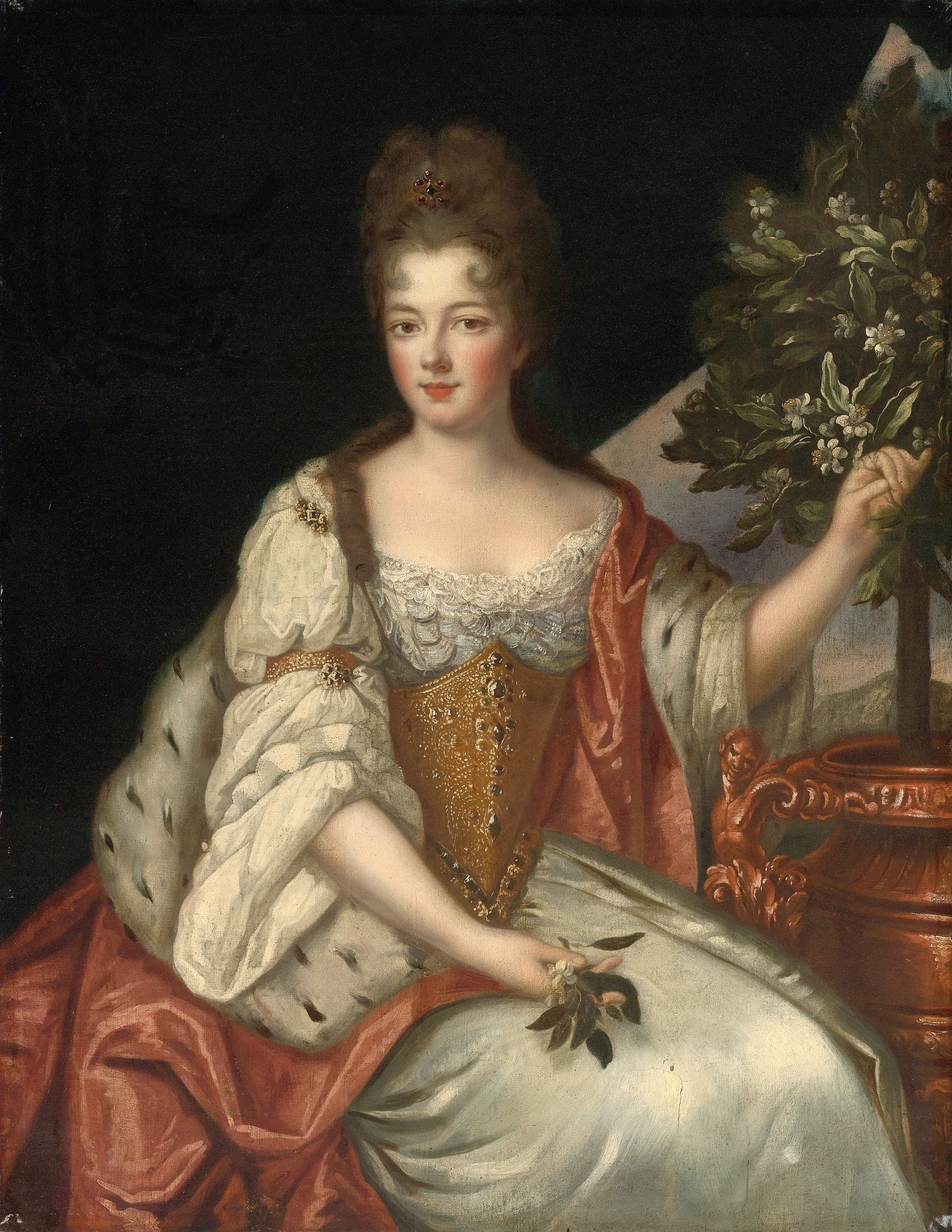 Portrait of a Lady, said to be the Princess de Condé (Louise Bénédicte de Bourbon (1676-1753))